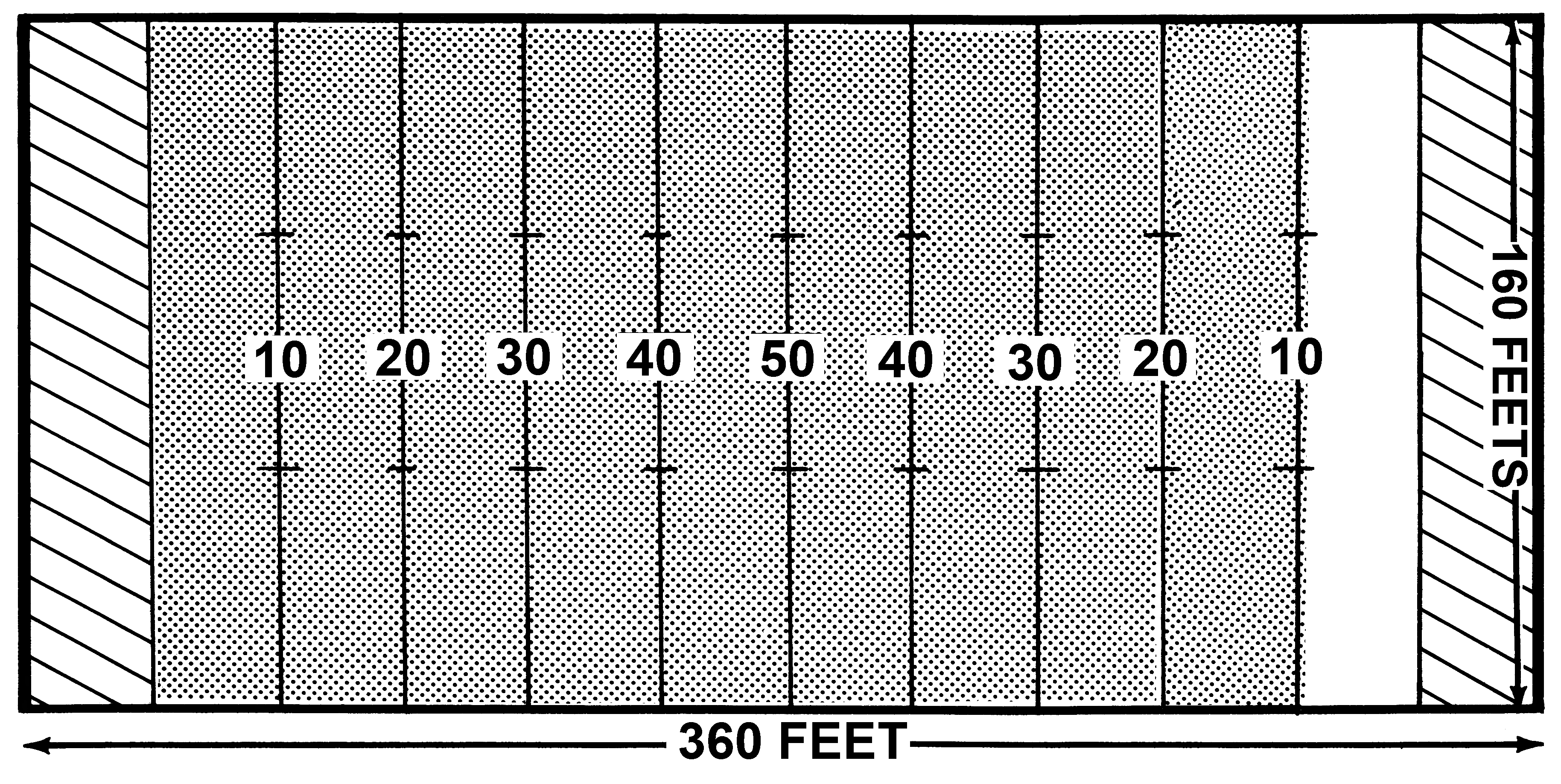 diagram of an acre.